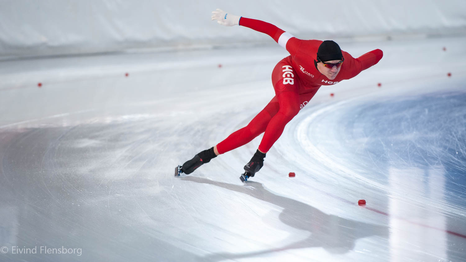 Norwegian speedskater